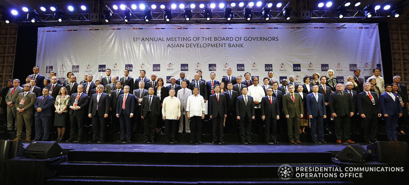 President Rodrigo Duterte and Finance Secretary Carlos Dominguez III pose for a photo with Asian Development Bank (ADB) President Takehiko Nakao and other officials of ADB during the 51st ADB Annual Meeting in Ortigas Center, Mandaluyong City, Philippines on May 5, 2018.